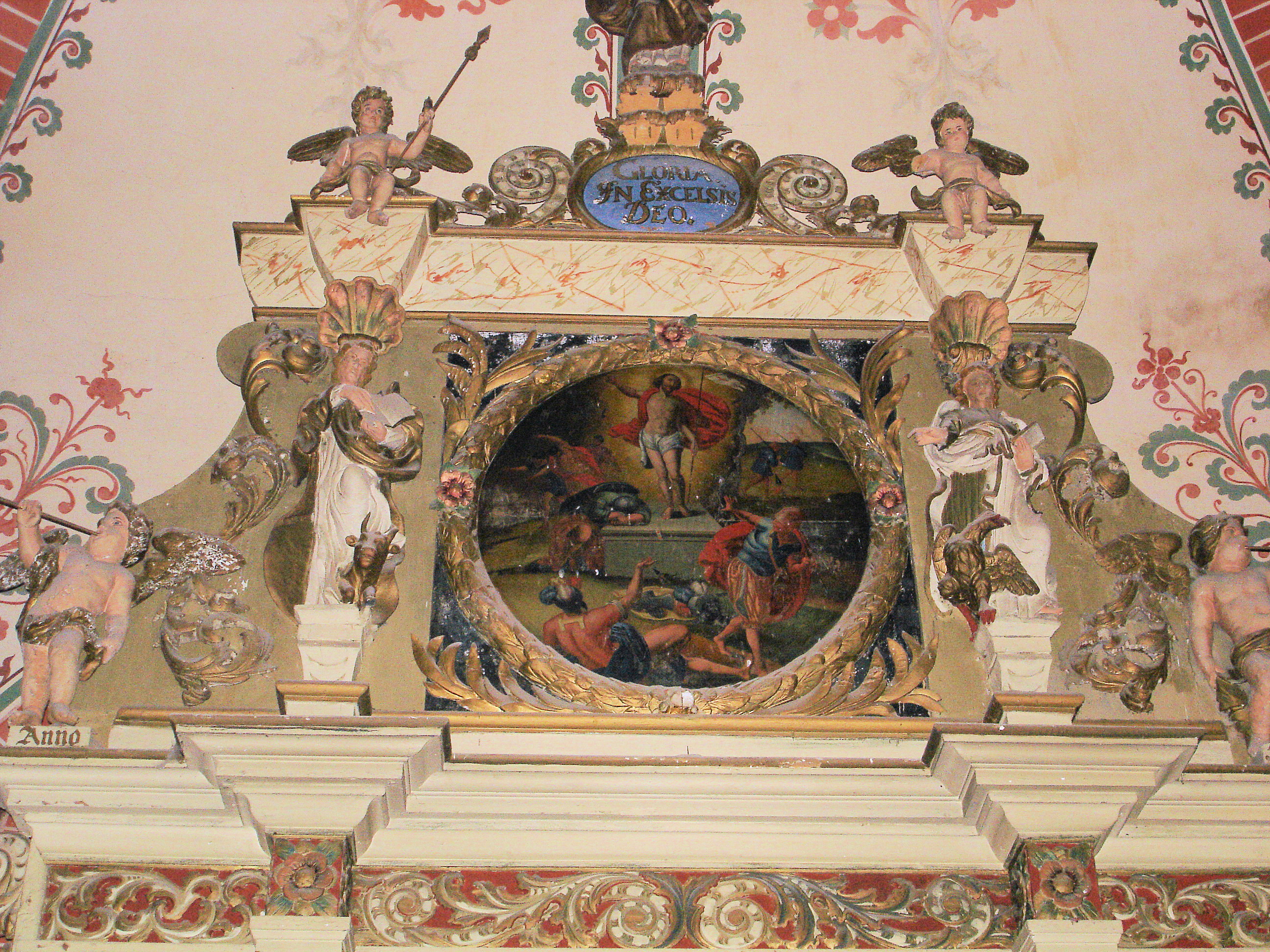 Detail of the altar in the church in Petschow, Mecklenburg, Germany